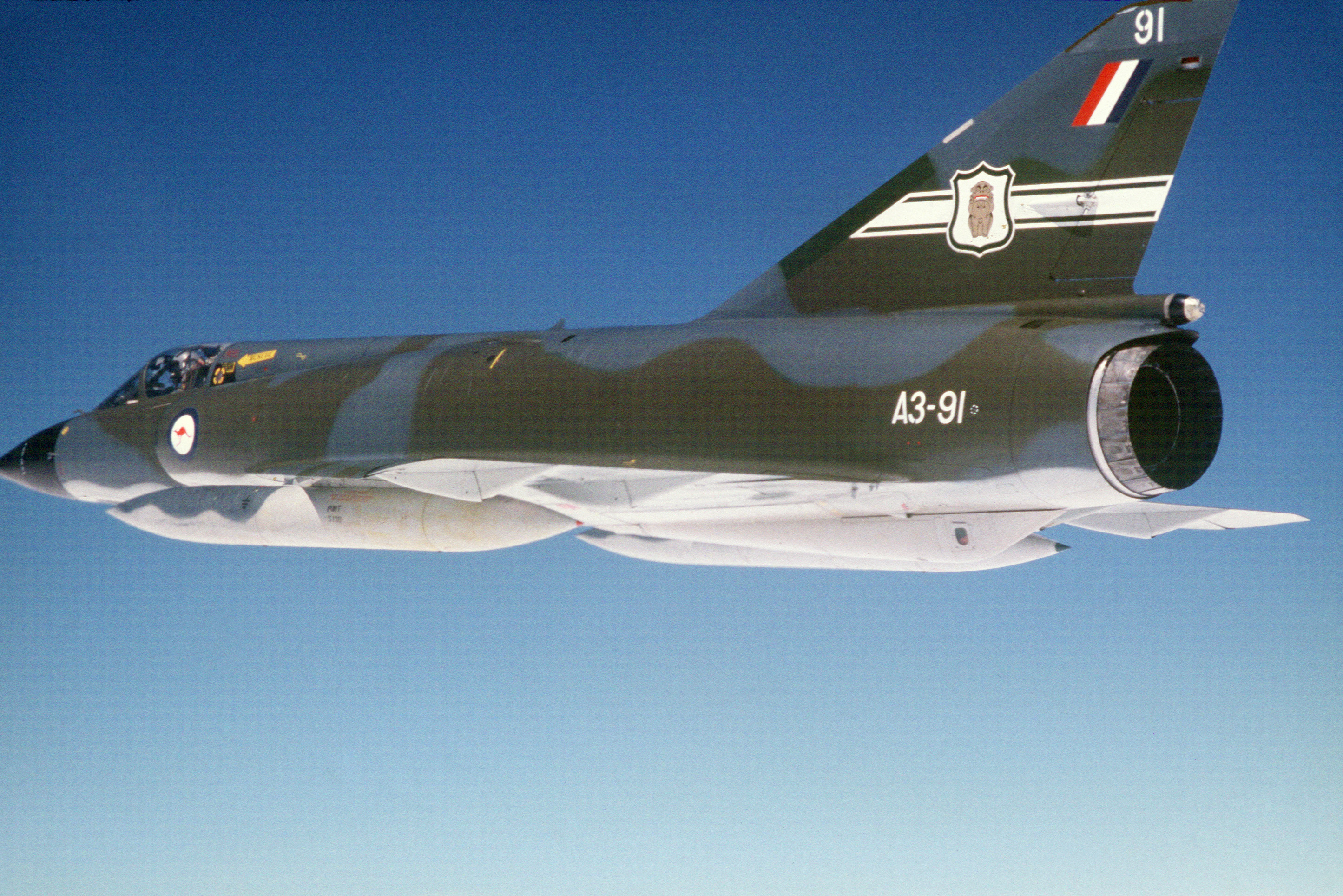 An air-to-air left side view of a Royal Australian Air Force Mirage III aircraft during Exercise CORAL SEA 85.